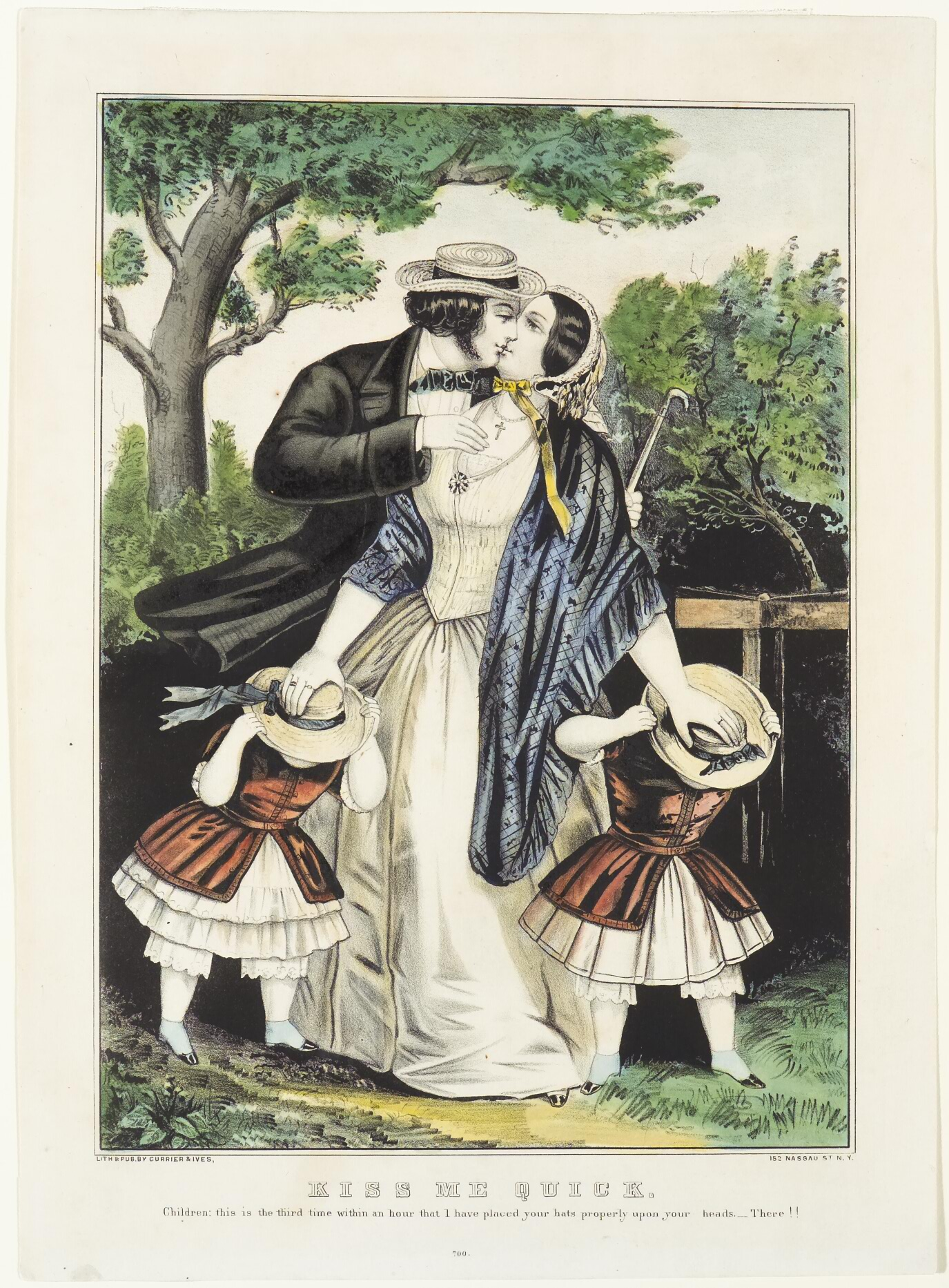 "Kiss me quick", a humorous Currier and Ives print that would have been considered slightly naughty at the time... Caption: "Children, this is the third time within an hour that I have placed your hats properly on your heads. -- There!!" (There were also a song and a hat style titled "Kiss Me Quick".)